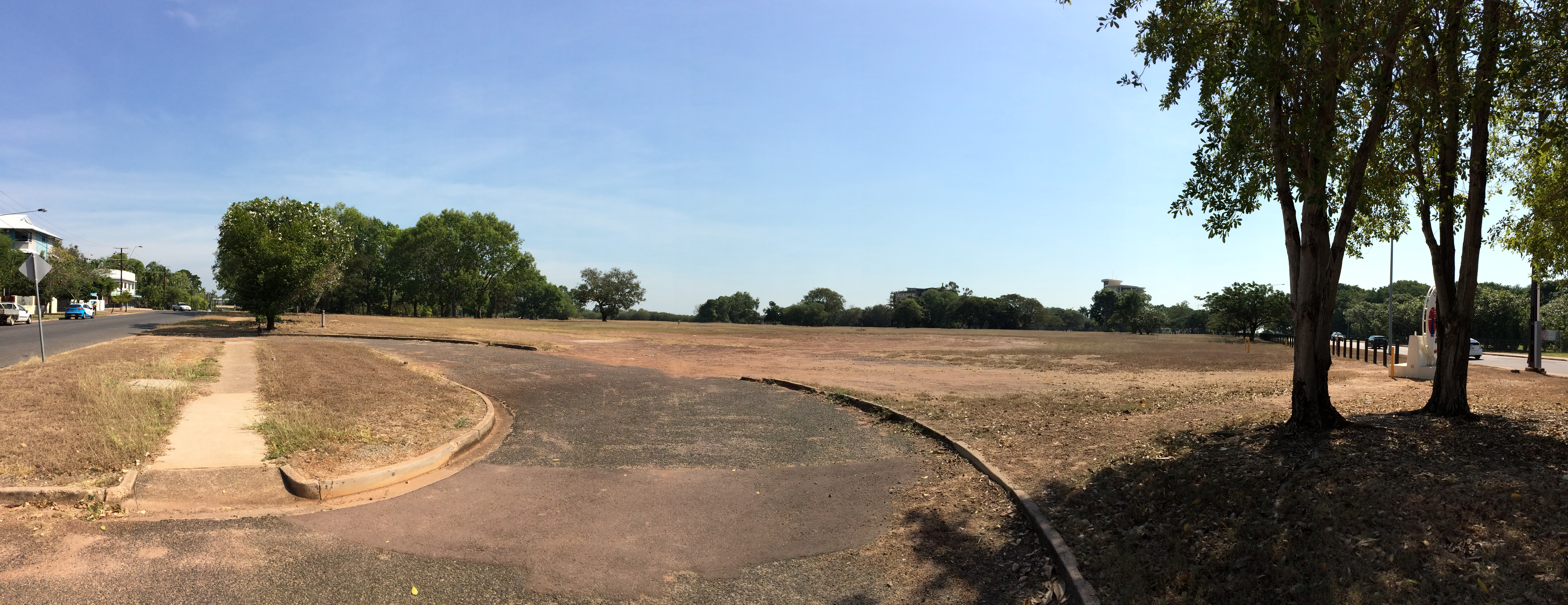 Kahlin Compound/Old Darwin Hospital site located in the Darwin suburb Larrakeyah.